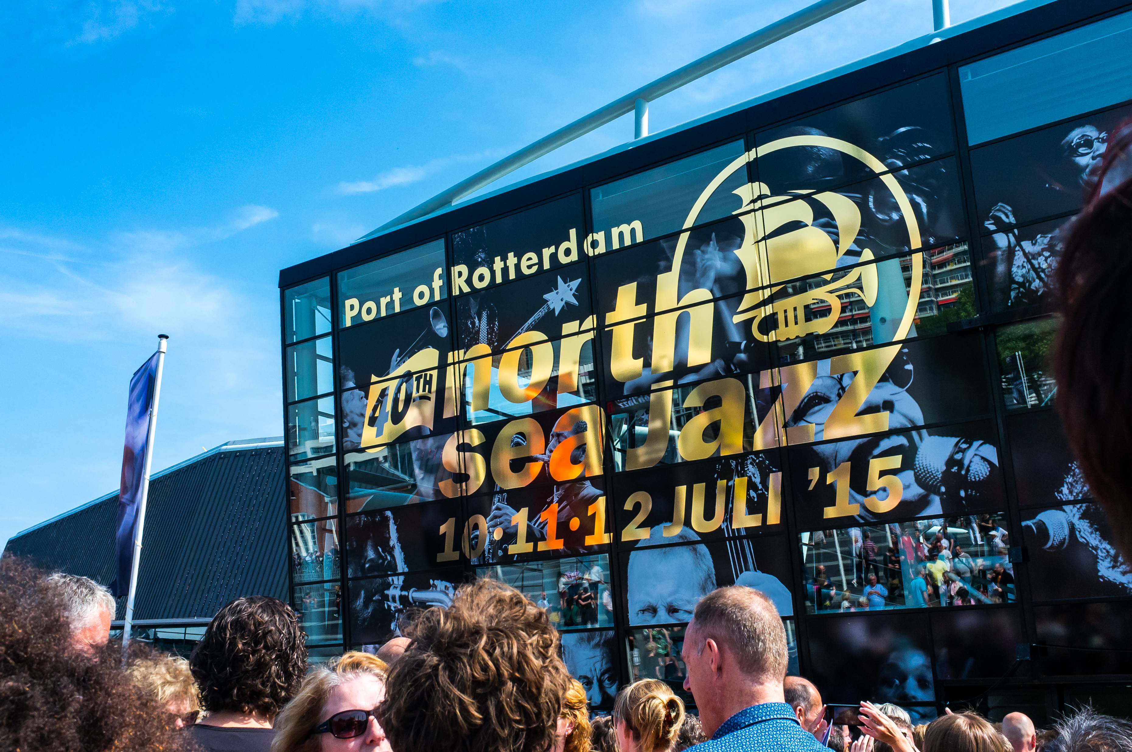 North Sea Jazz Festival 2015